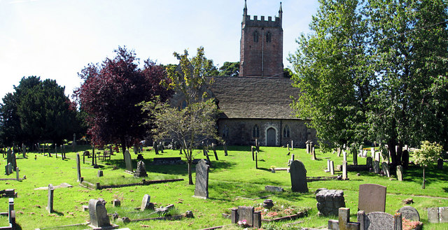 St Briavels churchyard. North of the church. A footpath runs left to right across the churchyard to a gate on the Mork Road. See 520093